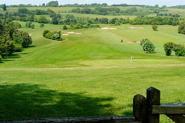 Worthing golf course The golf course extends for two kilometres up a dry valley, starting in this square.